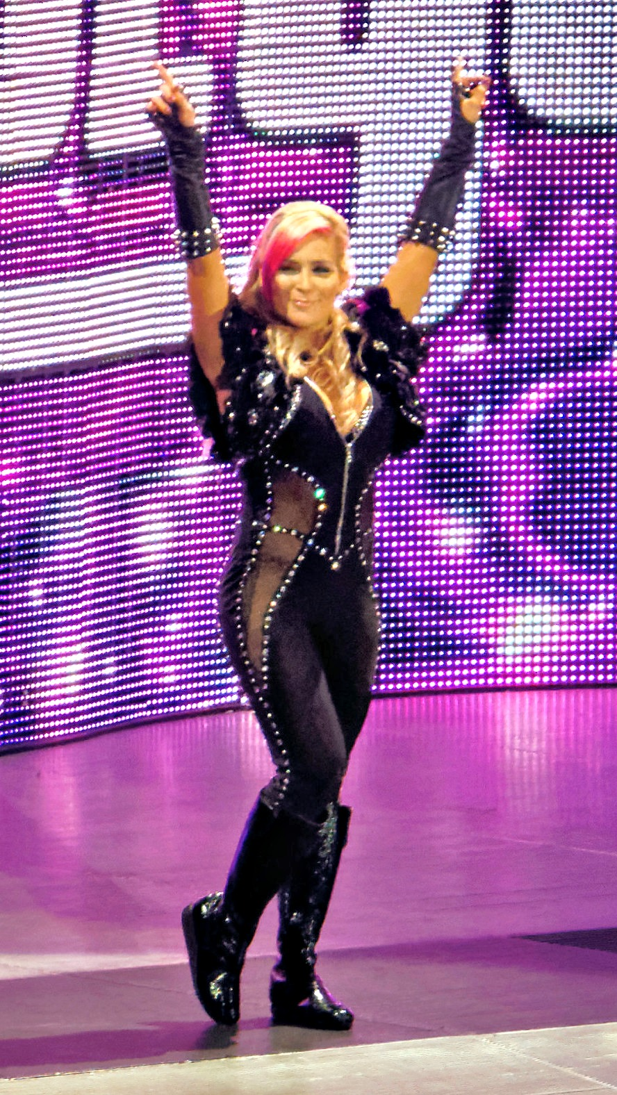 Natalya making her entrance before a Match on Raw in March 2015 one night after WrestleMania.